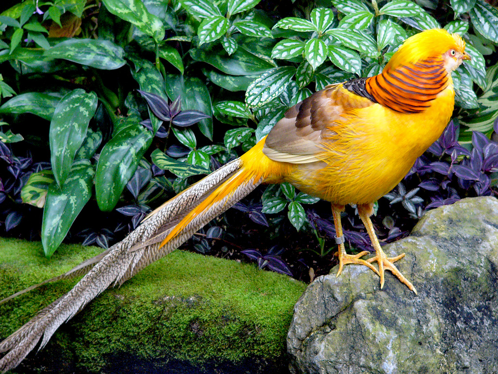 An adult yellow-colour-mutant Golden Pheasant in Bloedel Floral Conservatory, Queen Elizabeth Park, Vancouver, Canada.